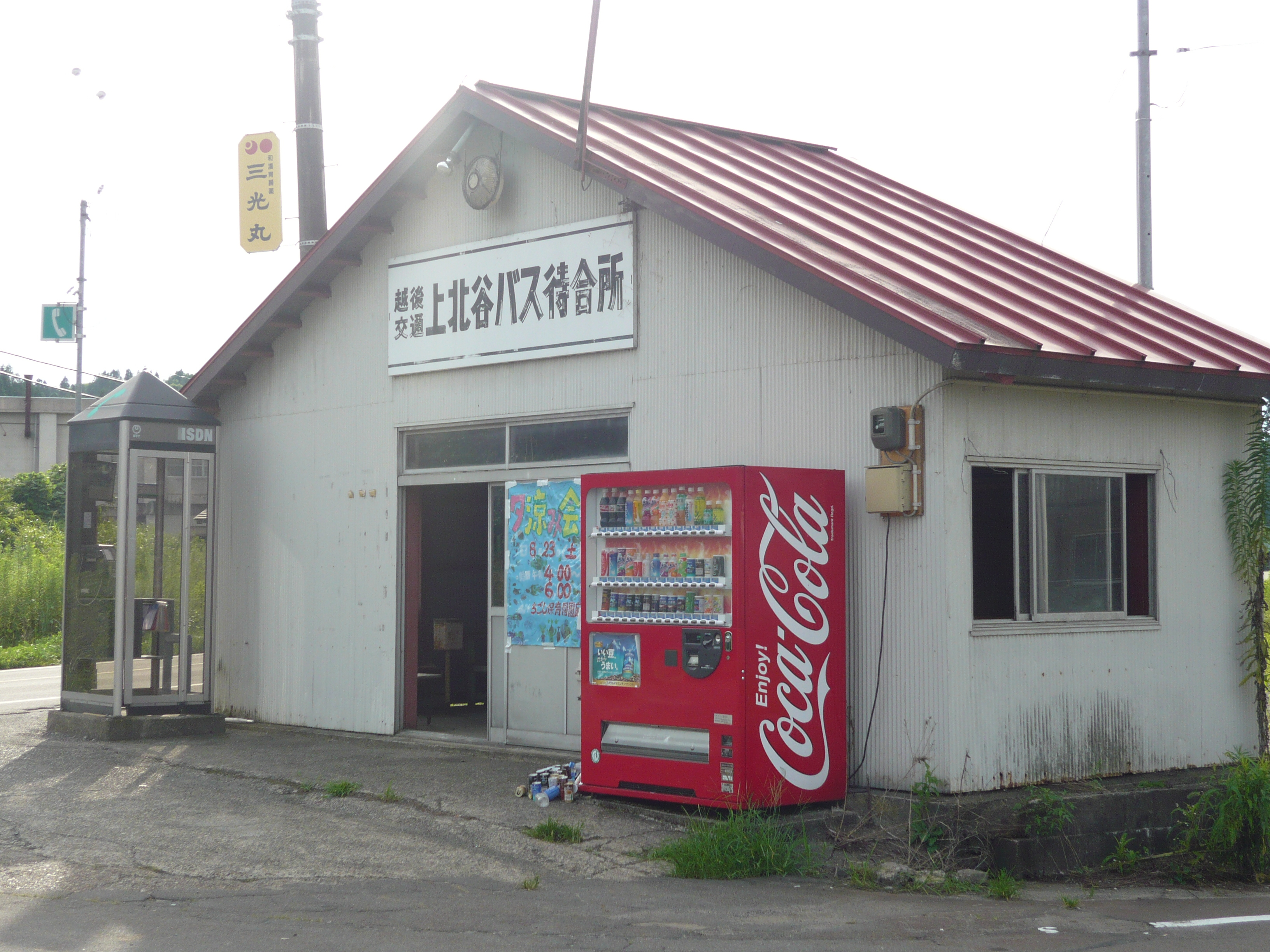 Echigo Kotsu Kamikitadani bus waiting area